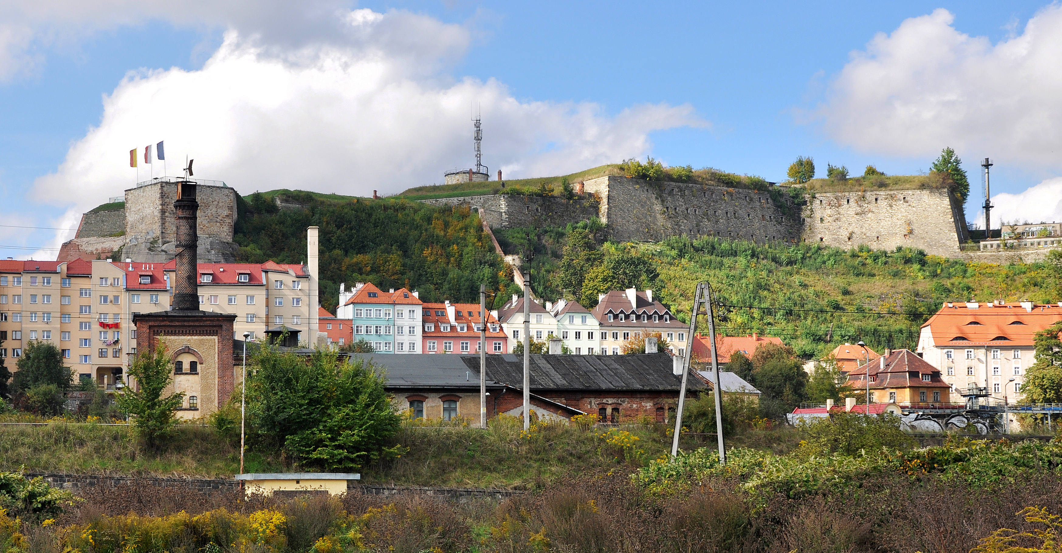 Kłodzko Fortress